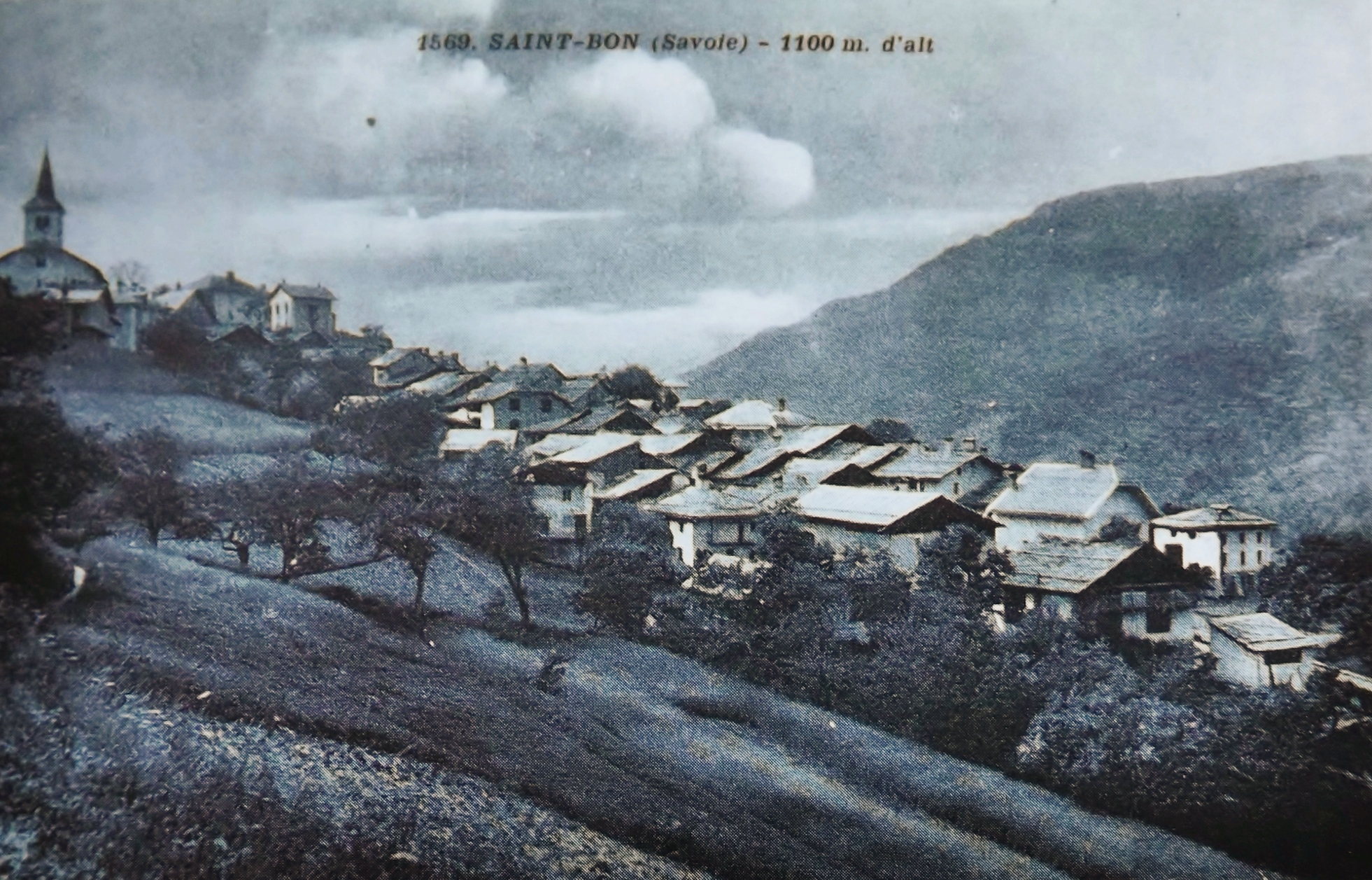 Picture of the village of Saint-Bon (Savoie, France), after Savoie/France annexation of 1860.